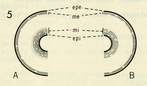 Muscle layers of pharynx in cross section. A, Planariidae; B, Dendrocoelidae. Abbreviations: epe, external epithelium; epi, internal epithelium; me, external muscle layer; mi, internal muscle layer.